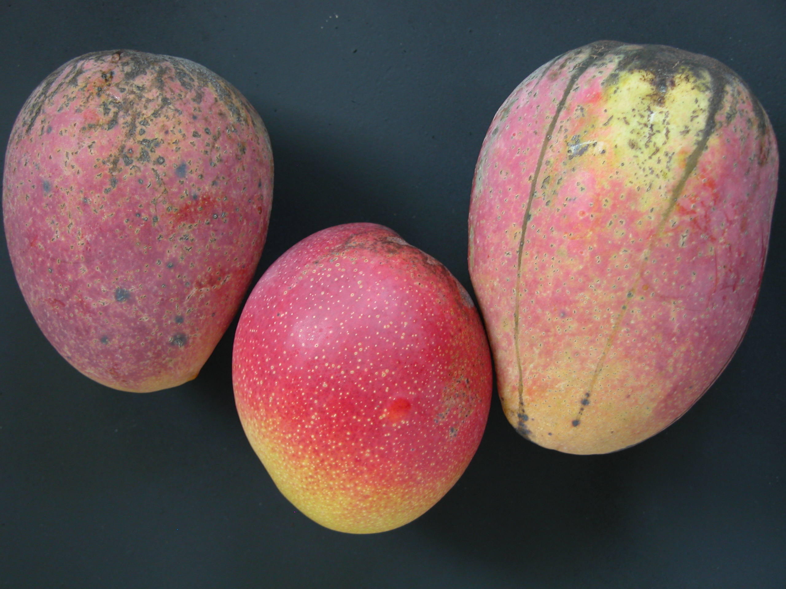 A Haden mango with Cogshall mangoes on both sides from the Ghosh Grove in Rockledge, Florida